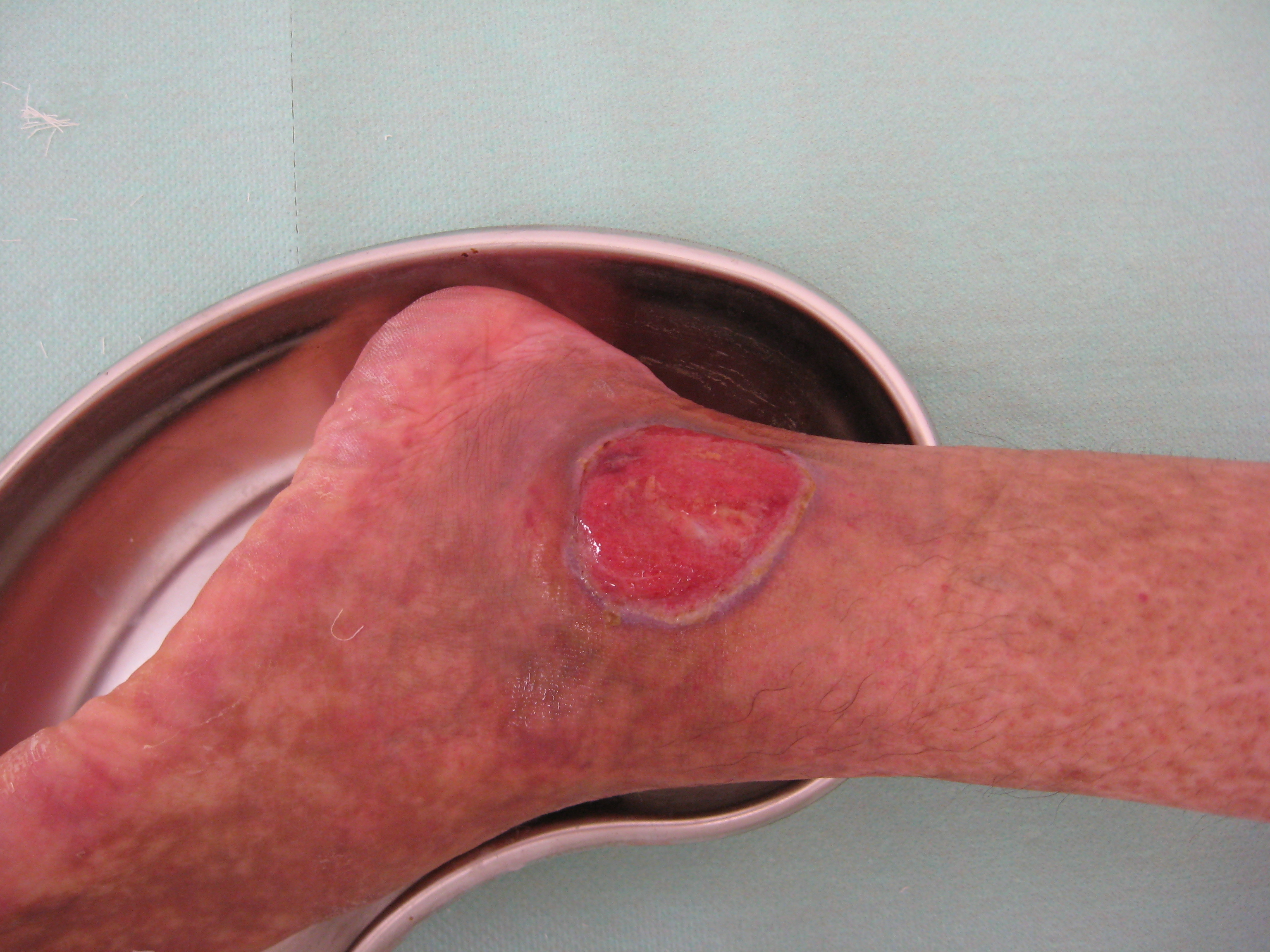 Ulcus cruris in secondary Sjögren's syndrome